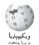 A logo for Wikipedia in the Pashto language. Uses the Pak Type Tehreer font.